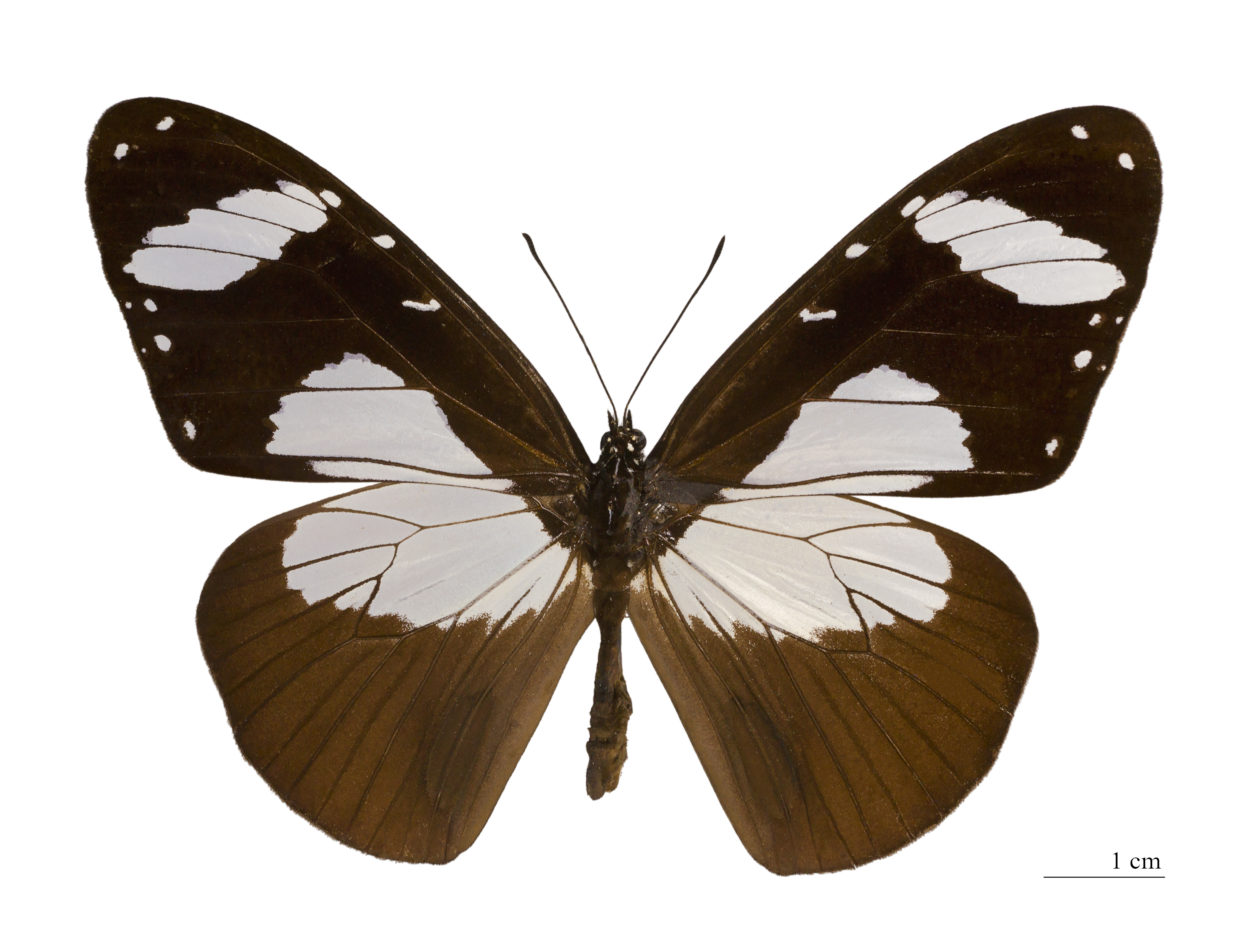 Male specimen - Dorsal side. Locality: Ebogo, Kamerun